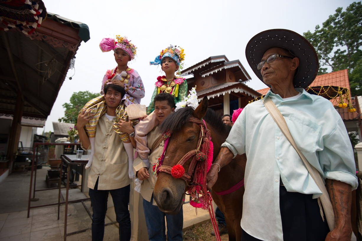 Poy Sarng Long is called in some areas as “Poy Look Kaew” (crystal strands) or “Poy Noi.” It is a cerebrating ceremony in the tradition of ordination of novices. Shan people call the person who is to be ordained as “Sarng Long.” - Poy Sarng Long tradition is organized in order to provide opportunity for children to study Dharma according to the teachings of the Buddha. It is believe that people involved will gain merit from this tradition. It is normally organized during the period of March-April of each year (During student summer vacation). Villagers make appointments among themselves to have their children to be ordained as novices on the same day. The children who will be ordained as novices are dressed and ornamented with invaluable ornaments. The children are ordained at the temples where the sponsors have faith. -The process of Poy Sarng Long tradition comprises 3 days. The first day is called “Hae Sarng Long Day.” On this day all the novices to be ordained will join the ceremony of Hair-shaving but not shaving the eyebrow (According to the belief of Myanmar they do not shave the eyebrow). They will put on makeup and dress beautifully according to the tradition. At this stage the novices who will be ordained are called “Sarng Long.” They will be taken to meet their respectful senior relatives to receive the precepts and blessed from them. The second day is called “Hae Krua Loo Day.” Sarng Long (the novices to be ordained) will be brought to parade in public. Sarng Long may ride a horse or if there is no horse the Sarng Long, he will ride on the shoulder of a man. In the evening there will be a ceremony of heart for Sarng Long and there are various entertainments according to the Shan tradition at night. The third day is called “Kharm Sarng Day.” It is the day of the novices ordination which takes place in the temple.